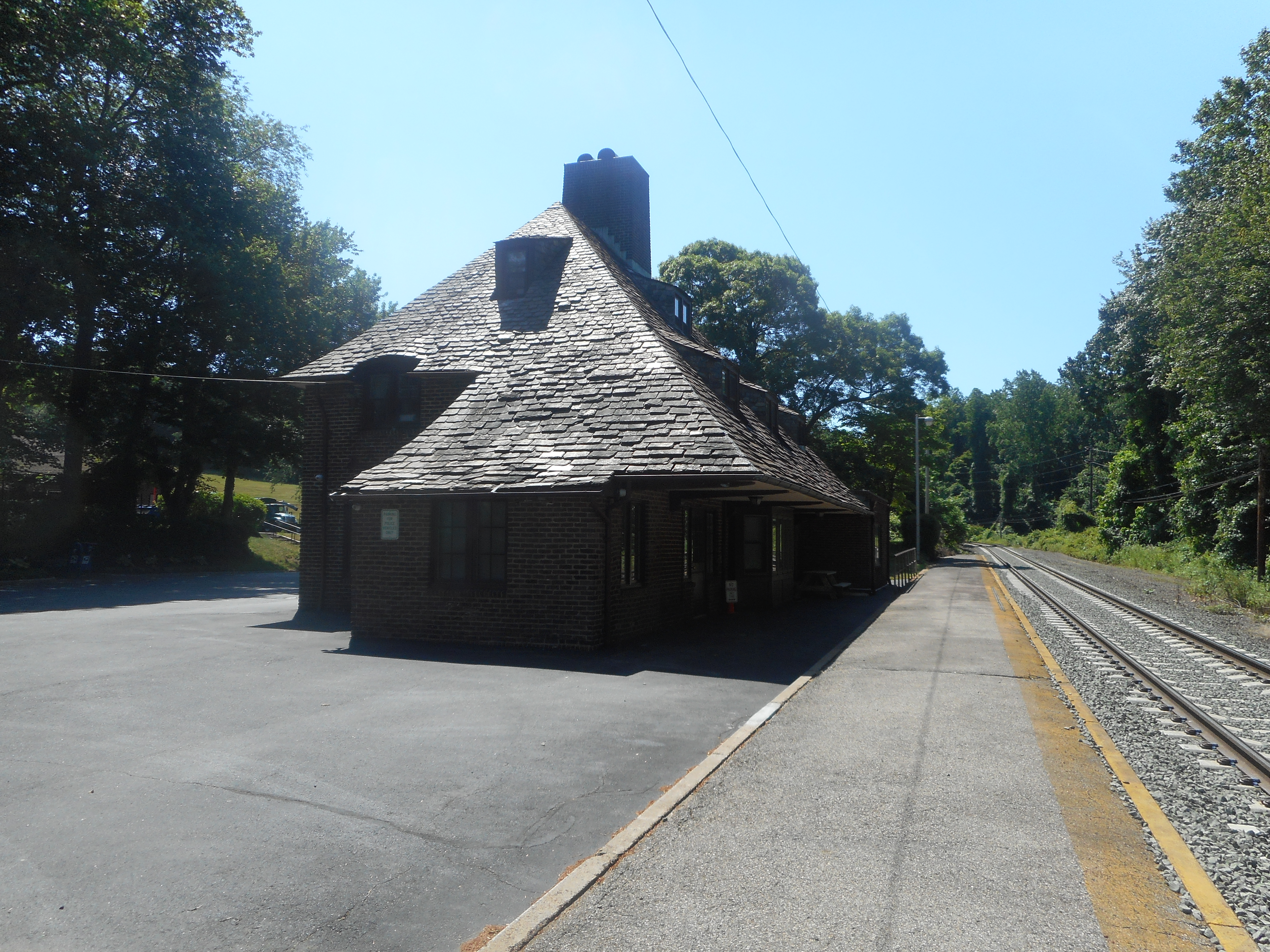 The former Mill Neck LIRR station on the Oyster Bay Branch of the Long Island Rail Road in Mill Neck, New York. Further details to come later, although a rename is not necessarily guaranteed.